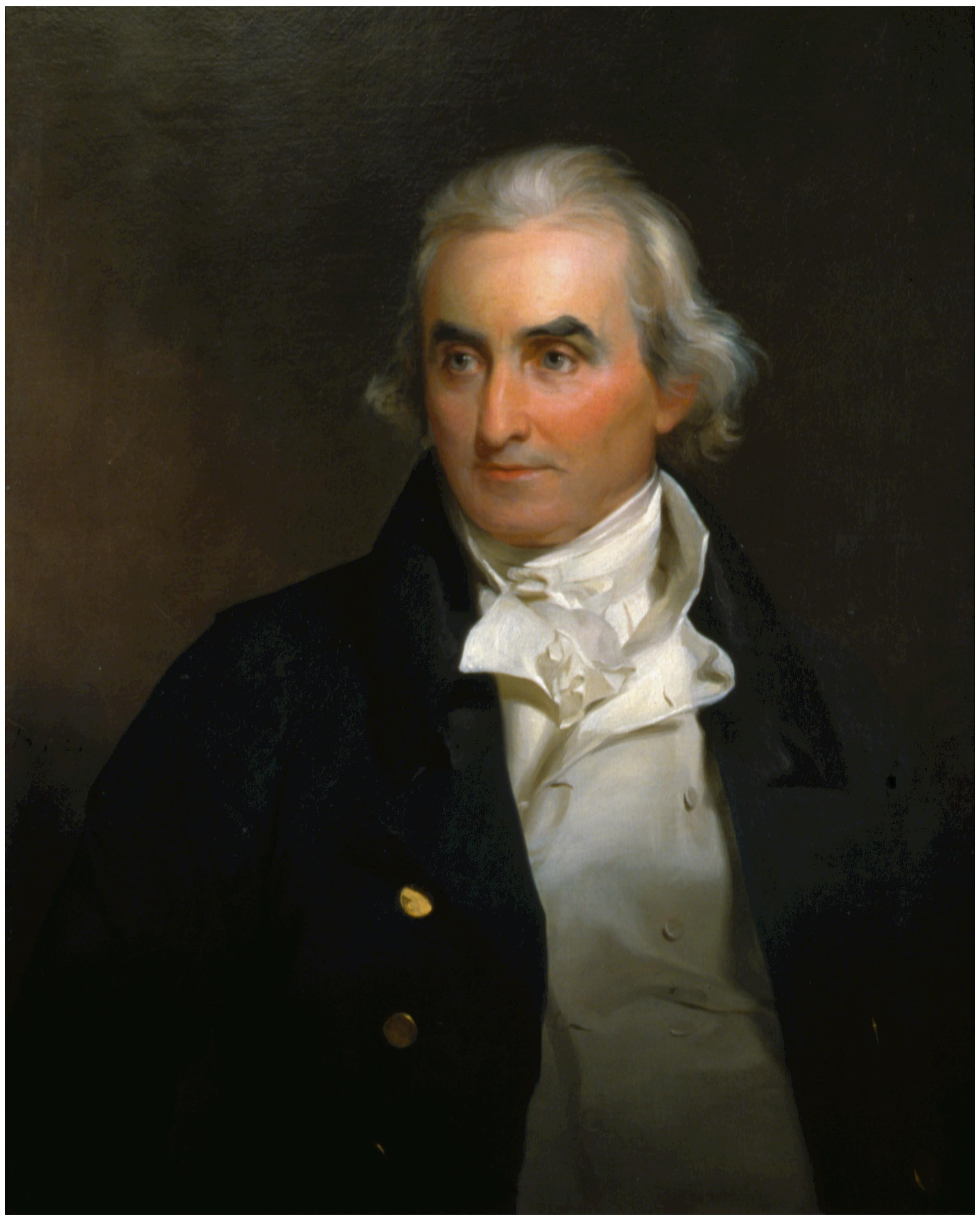 1883.1.1 Patterson, William, 1752-1835 Oil on canvas by Sully, Thomas (1783-1872), 1821. Half-length portrait shows William Patterson: man with gray hair, facing right, wearing black coat with gold buttons, and white waistcoat with white stock, shown against brown-gray background. Signature: "T.S. 1821" Bequest of Mrs. George Patterson